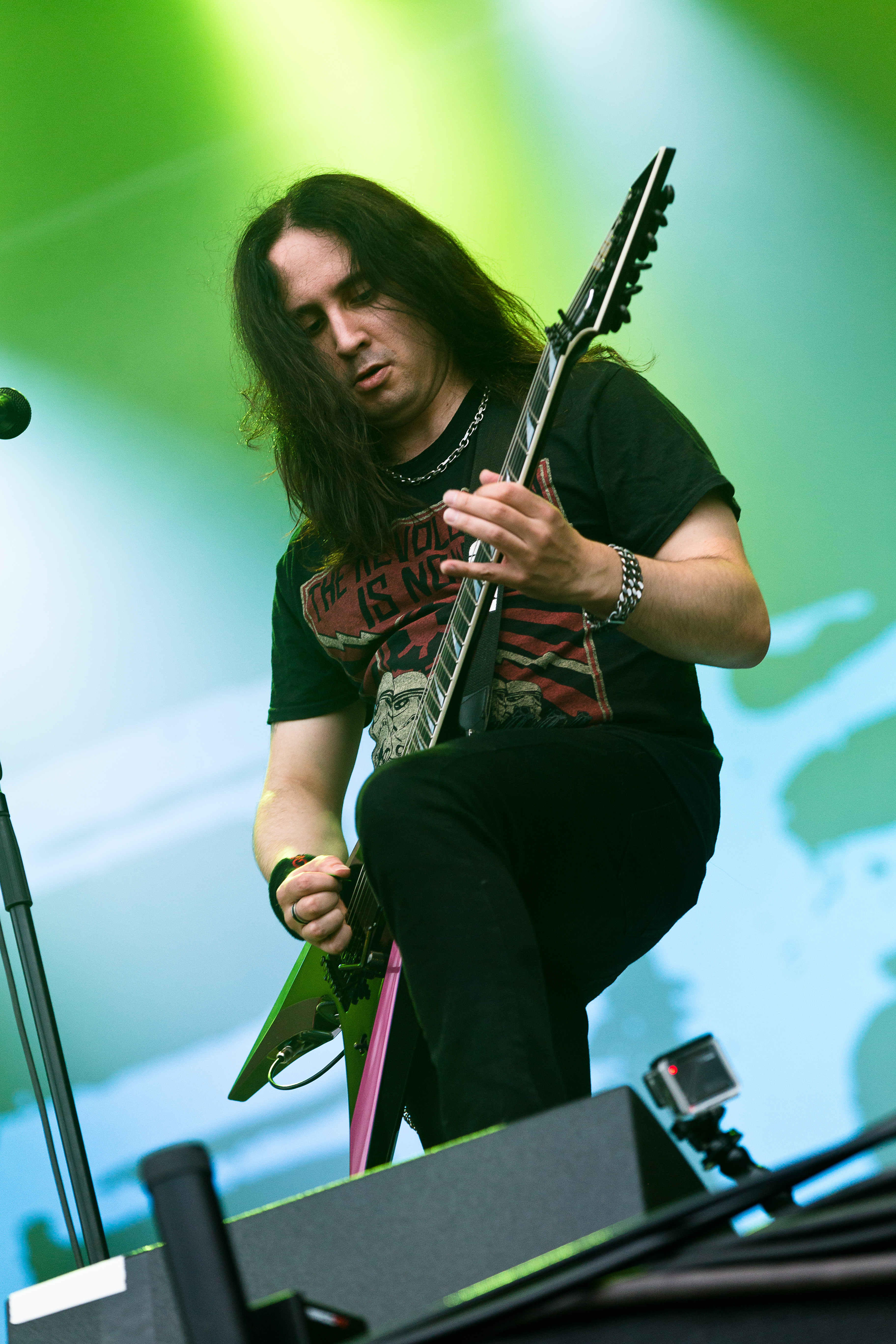 The Finnish melodic death metal band Children of Bodom at the Rockharz Open Air 2016 in Ballenstedt/Germany.